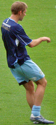 Dave Challinor. Image cropped from original at flickr.